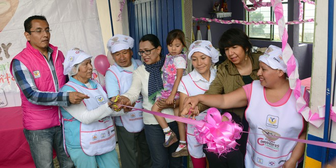 Comedores Comunitarios en la Ciudad de México